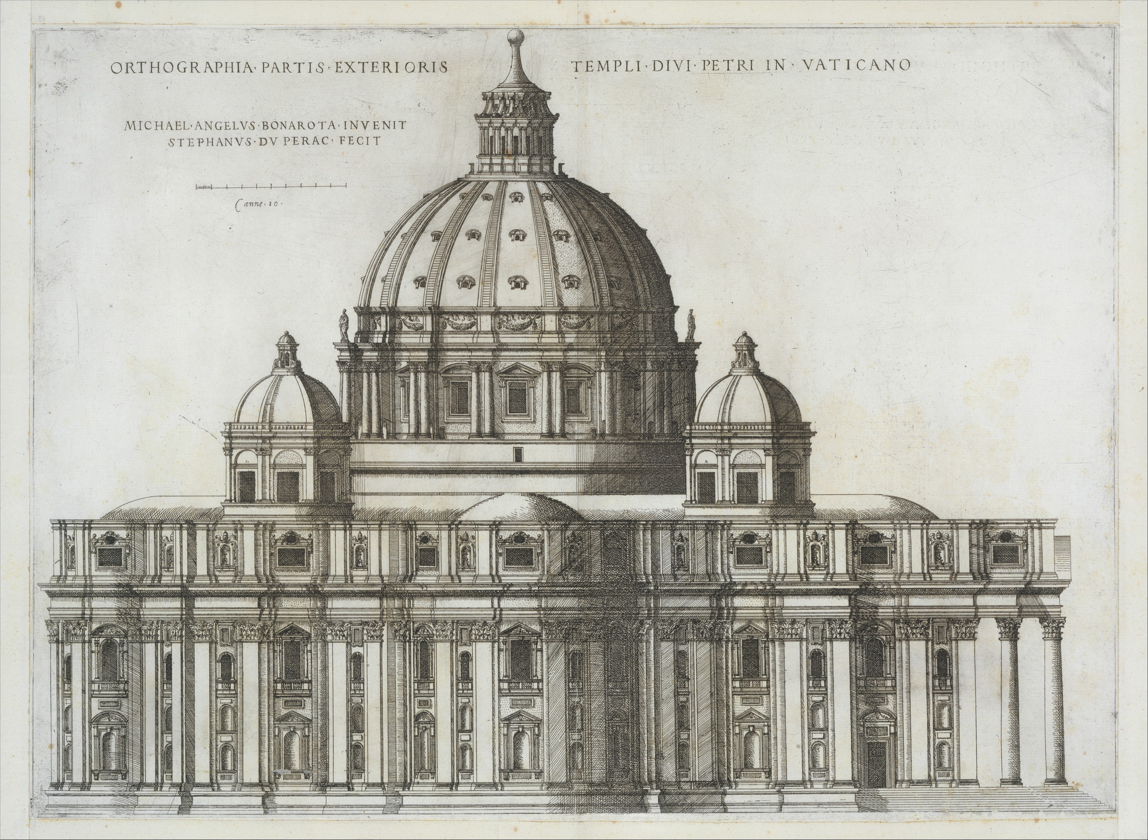 Print; Prints